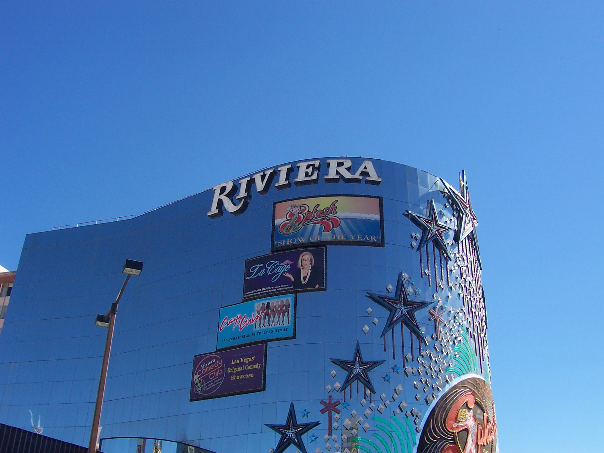 Riviera (hotel and casino) in Las Vegas taken with a Kodak EasyShare CX6330